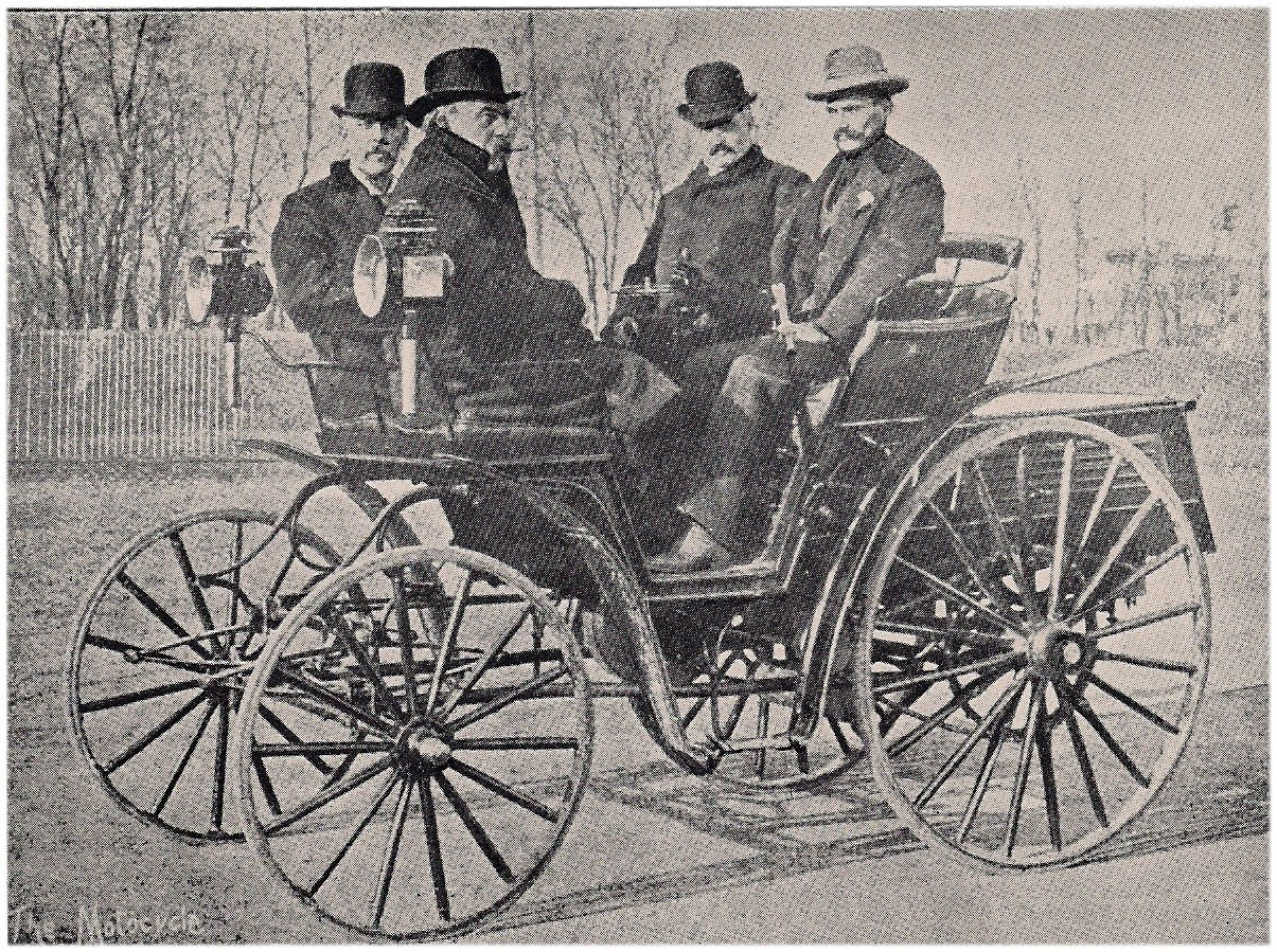 Mueller-Benz car entered in the Chicago Times-Herald car races of 1895. It won the Expo Run, 2 November, 1895, and became second in the Contest, 28 November, 1895. Seated are the Race Officials Col. Marshall I. Ludington, Henry Timken, C.F. Kimball, with driver Oscar B. Mueller. (This car was an imported Benz Vis-à-Vis model with some mechanical modifications performed by Mueller.)